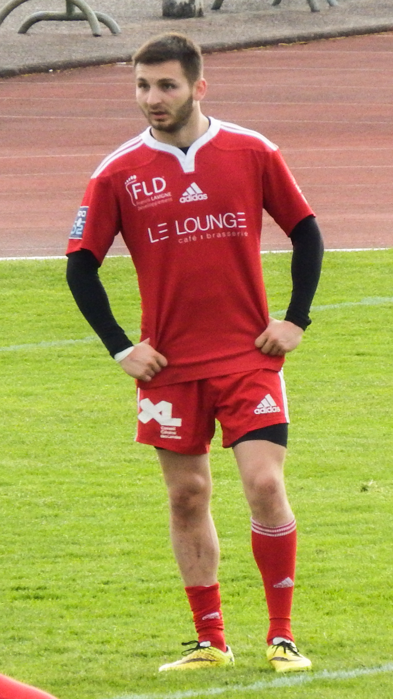 Pro D2 2014-2015 — 4 April 2015, Stade Maurice-Boyau. Match between: US Dax — RC Massy